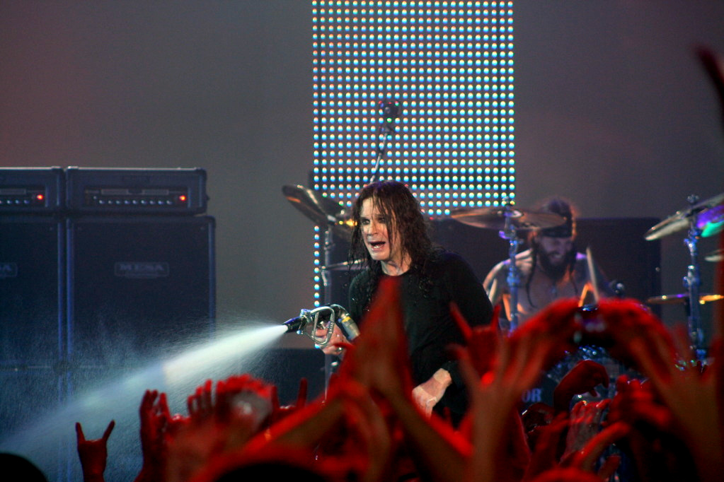 Ozzy Osbourne at BlizzCon 09